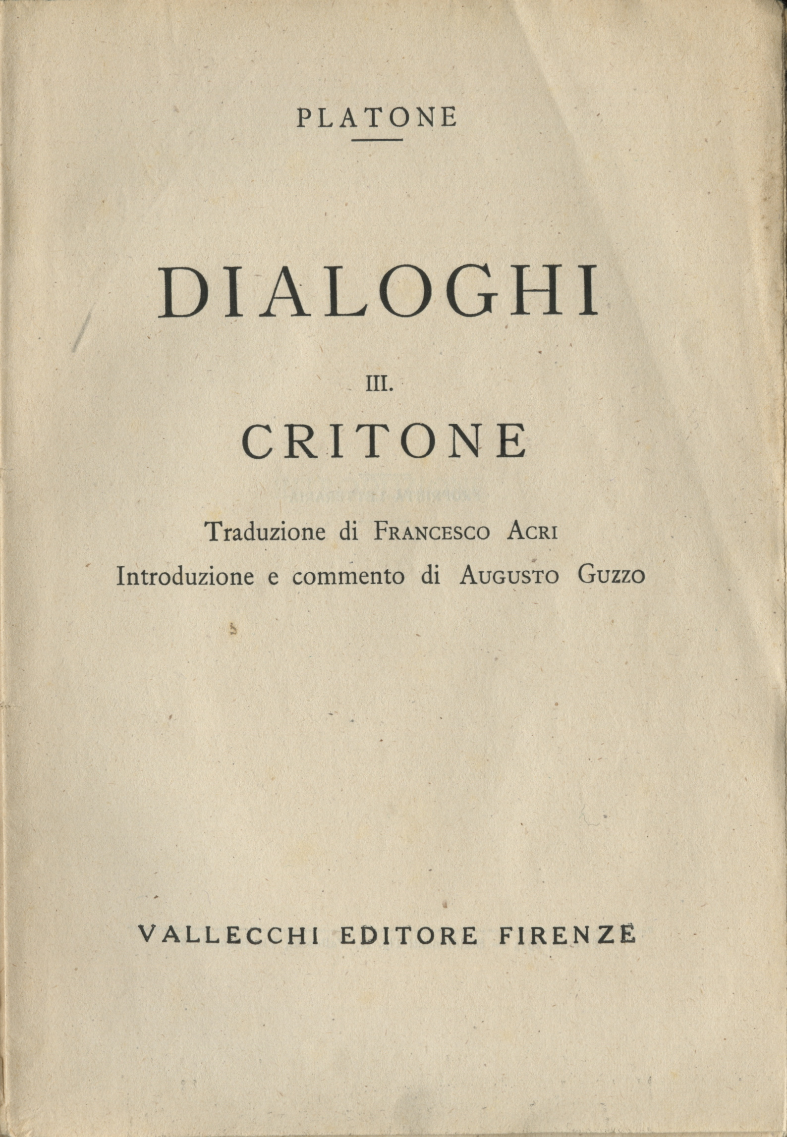 Photo of the book "Critone", printed in 1925.